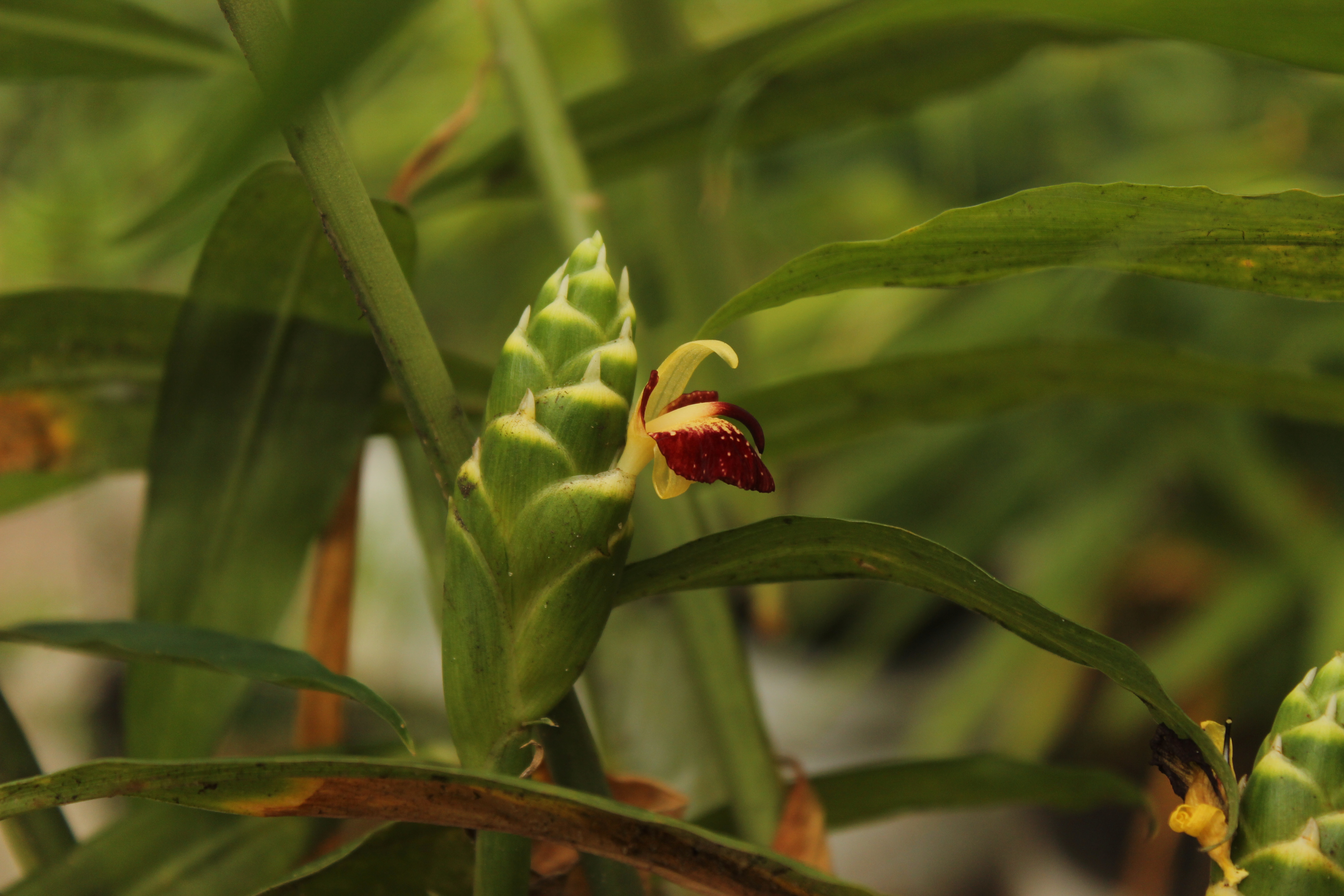 Flower of the Ginger plant